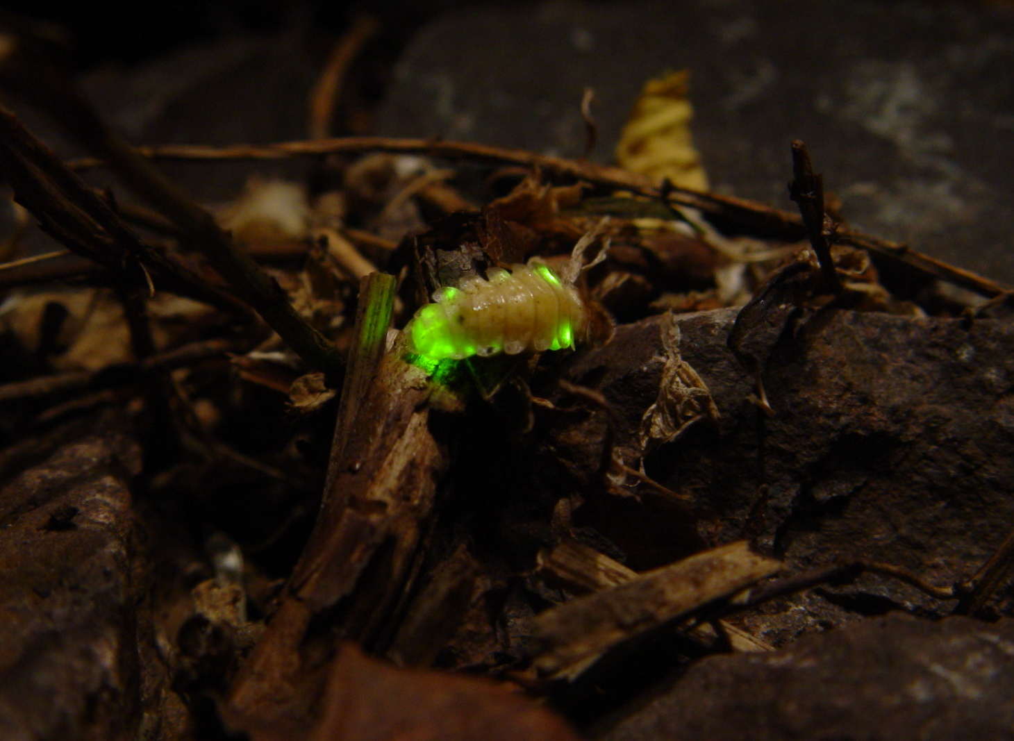 Firefly Wahrscheinlich eine Lamprohiza--Vitalfranz 11:58, 18 November 2007 (UTC)